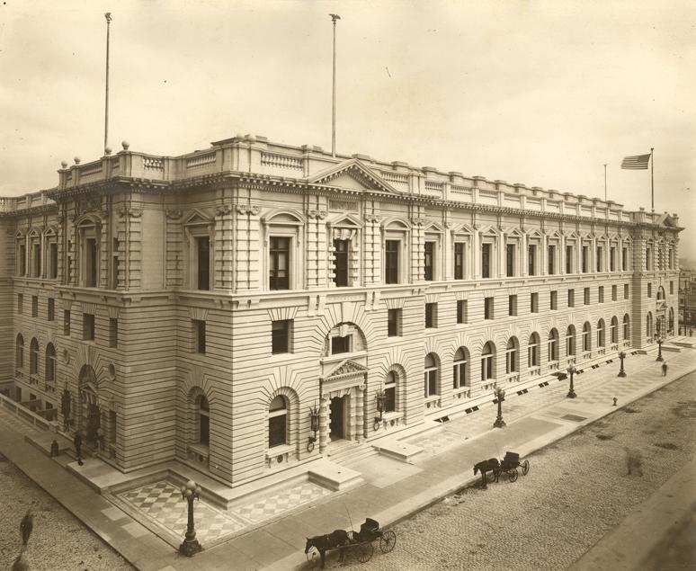 U.S. Post Office and Courthouse (n.d., ca. 1905) Completed in 1905. Supervising Architect: James Knox Taylor Still in use by the U.S. Court of Appeals for the Ninth Circuit; the U.S. District Court for the Northern District of California met here until 1962; the U.S. Circuit Court for the Northern District of California met here until that court was abolished in 1912. Renamed the U.S. Court of Appeals Building for the Ninth Circuit in 1996.